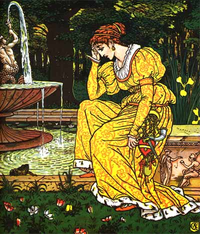 The Frog Prince, Princess Belle-Etoile, Aladdin and the Wonderful Lamp.